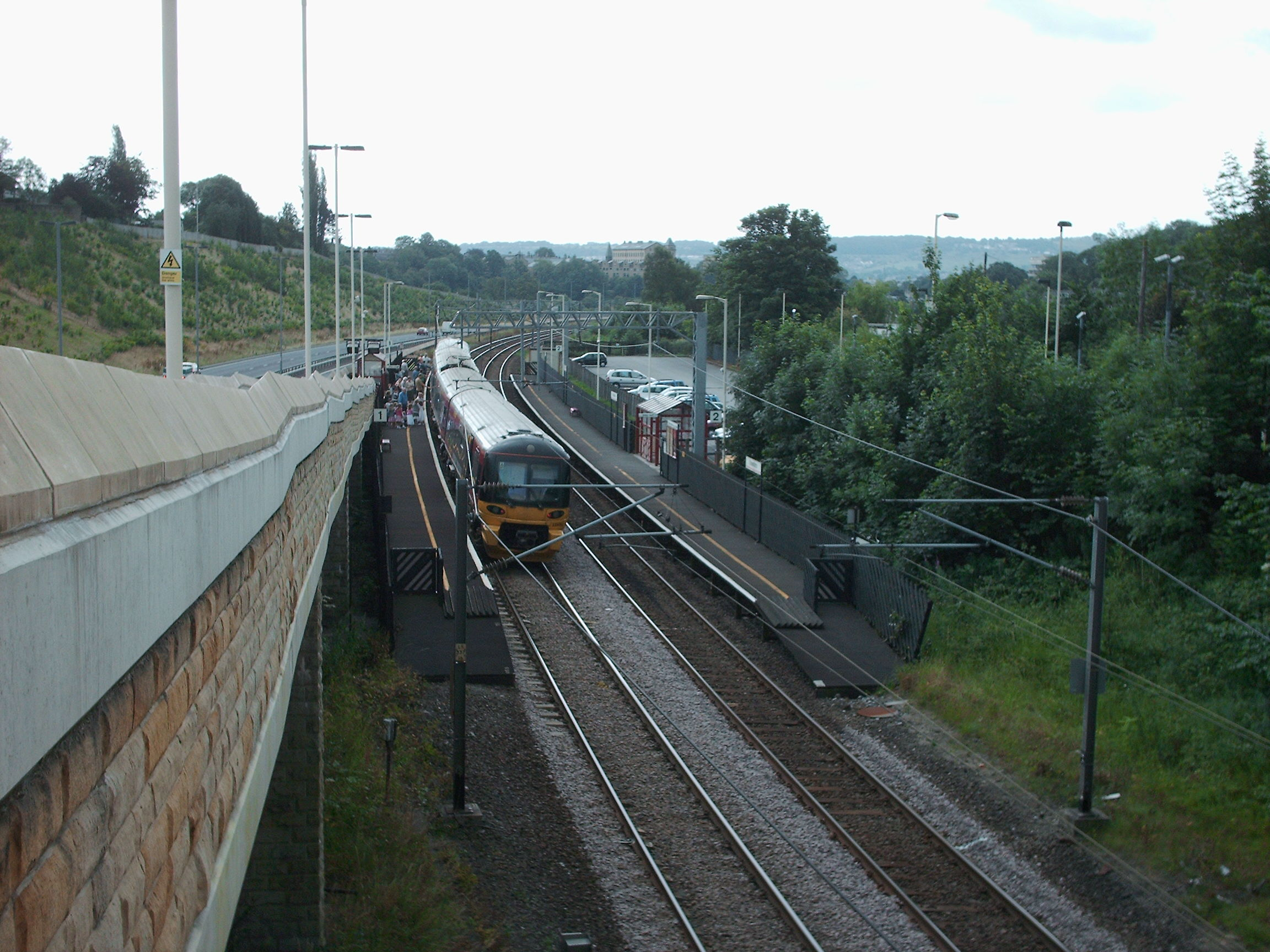 Crossflatts railway station, West Yorkshire, England. platform 1.